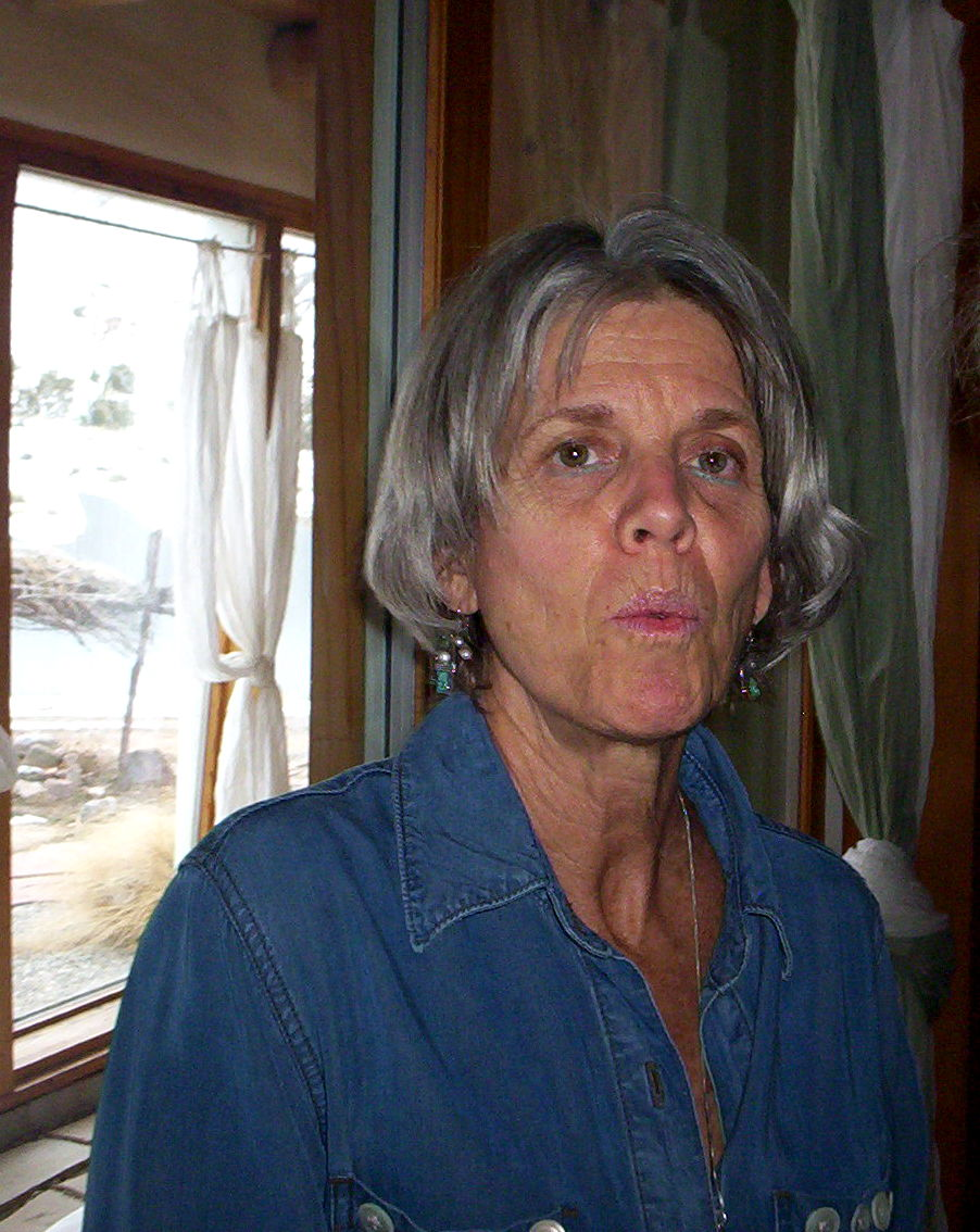 Chellis Glendinning in New Mexico ca. 2005